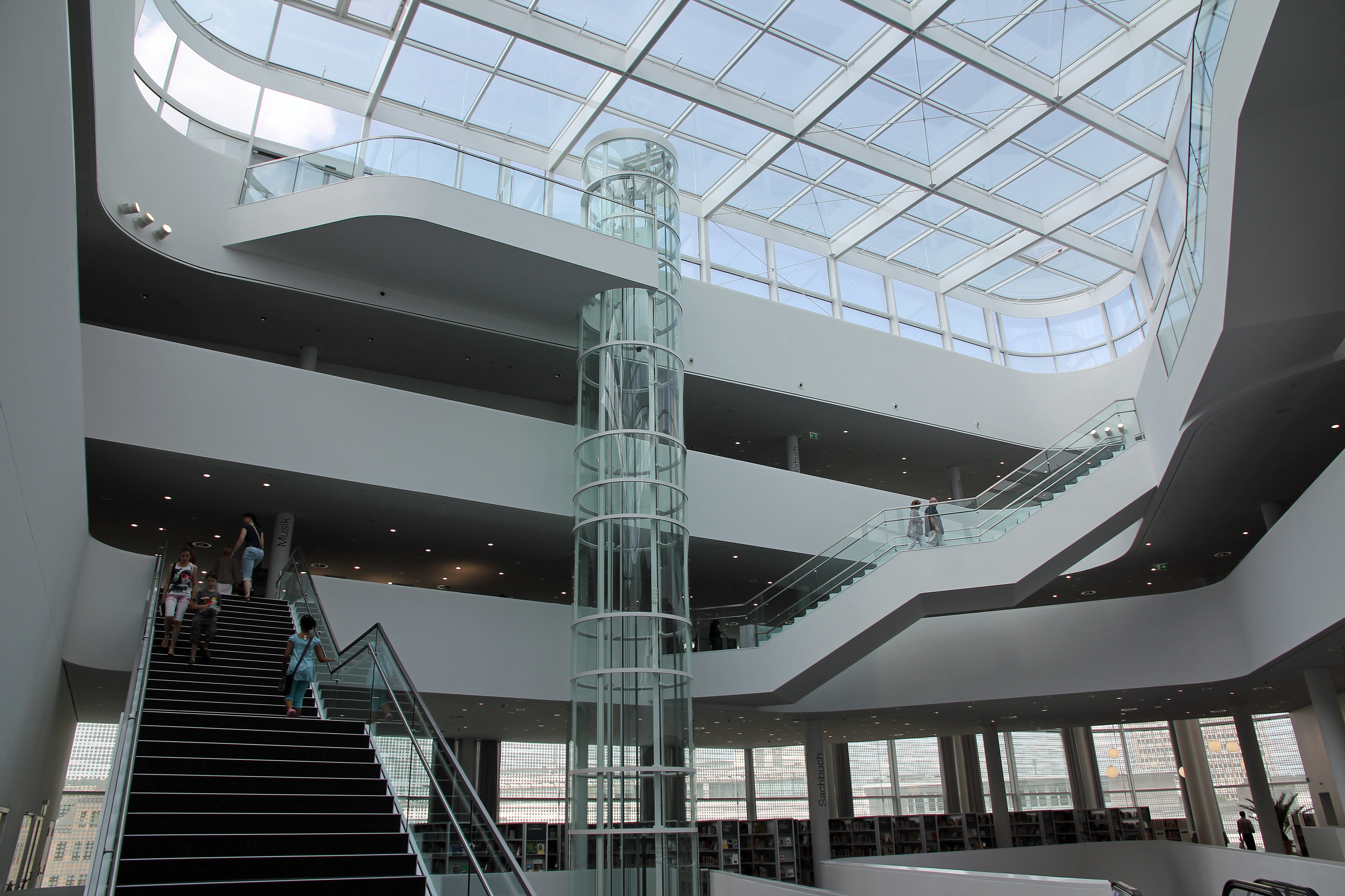 Forum Confluentes in Koblenz